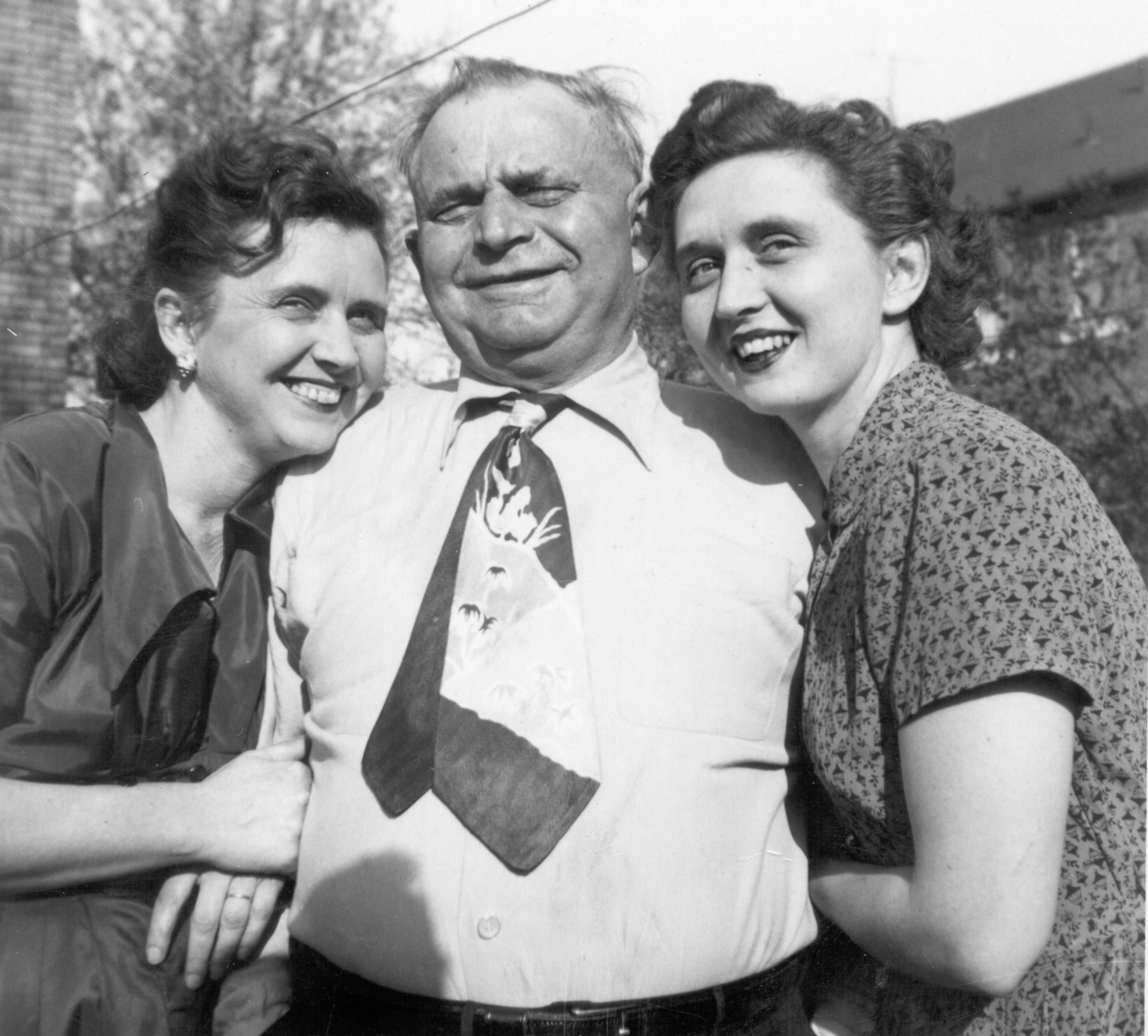 Example of a post-War "Bold Look" necktie, Detroit, 1953. Benny Tolzdorf with his daughters Bernice Smykowski and Lucy Tracz. From my personal collection, Bernice was my grandmother.